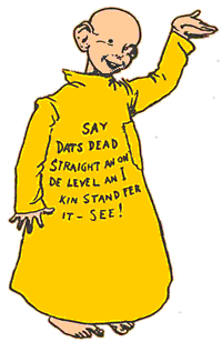 Richard Outcault (1863-1928), Yellow Kid